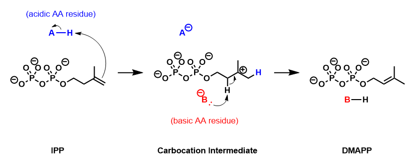 This image depicts the isomerization of isopentenyl pyrophosphate to dimethylallyl pyrophosphate. Drawn using ChemDraw software.